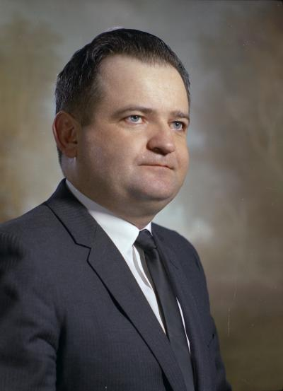 House of Representatives Sergeant at Arms Eugene A. Prince, 1967